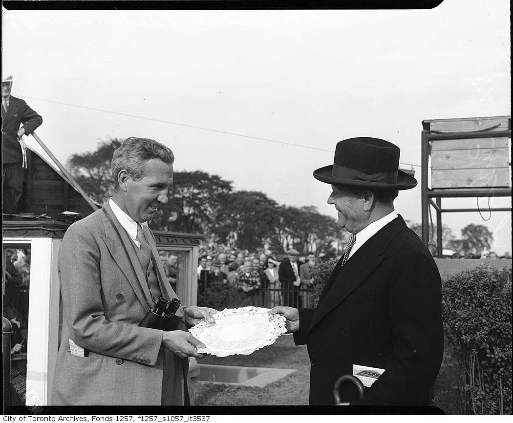 Photographer: Alexandra Studio ca. 1940 This image is available from the City of Toronto Archives, listed under the archival citation Series 1057, Item 3537. This tag does not indicate the copyright status of the attached work. A normal copyright tag is still required. See Commons:Licensing for more information.